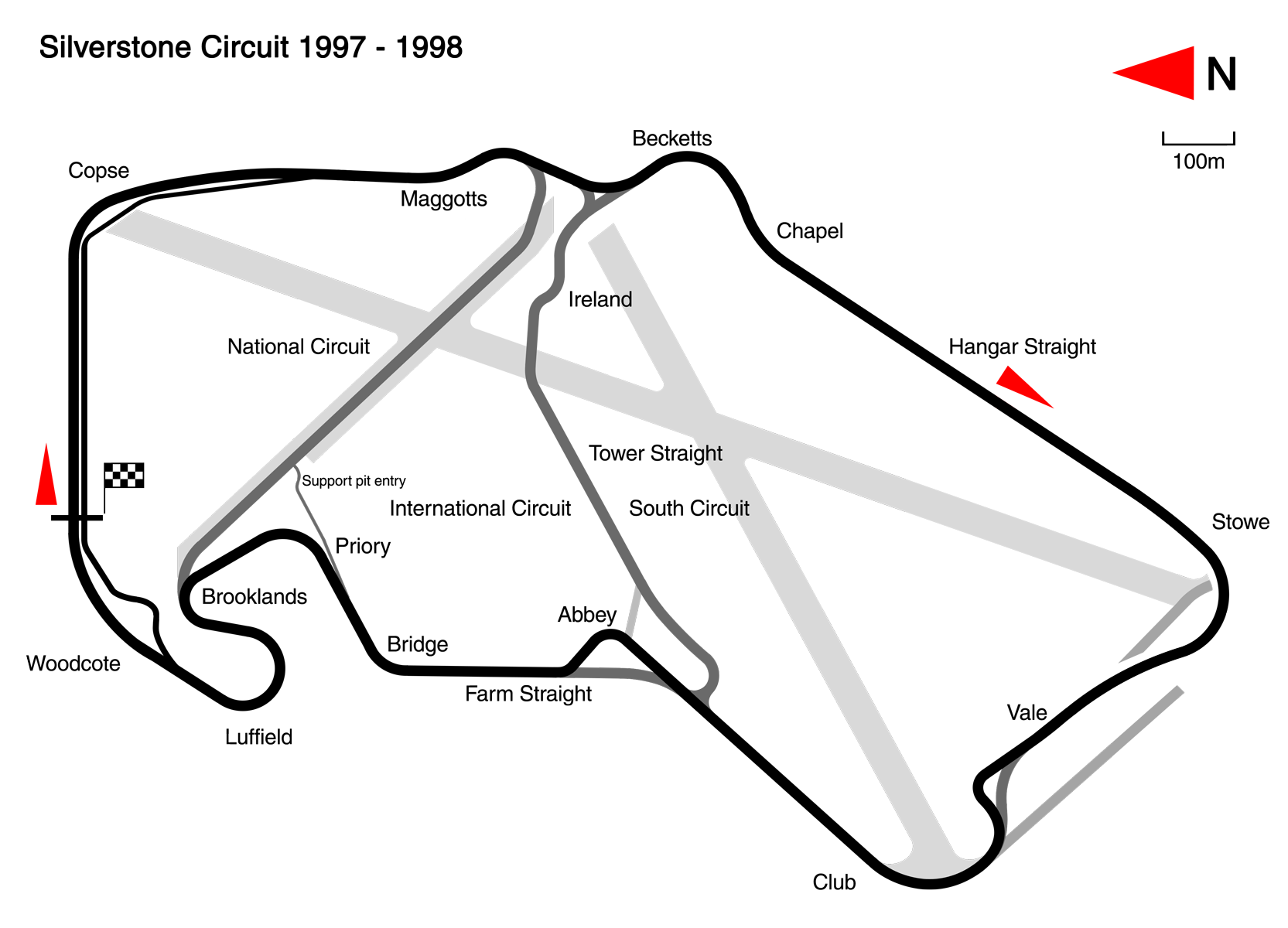 Track diagram of Silverstone Circuit in the UK in 1997 to 1998 configuration. Made to scale from aerial photographs.